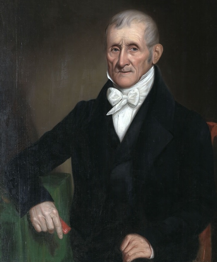 Caleb Tompkins, New York Judge and Congressman